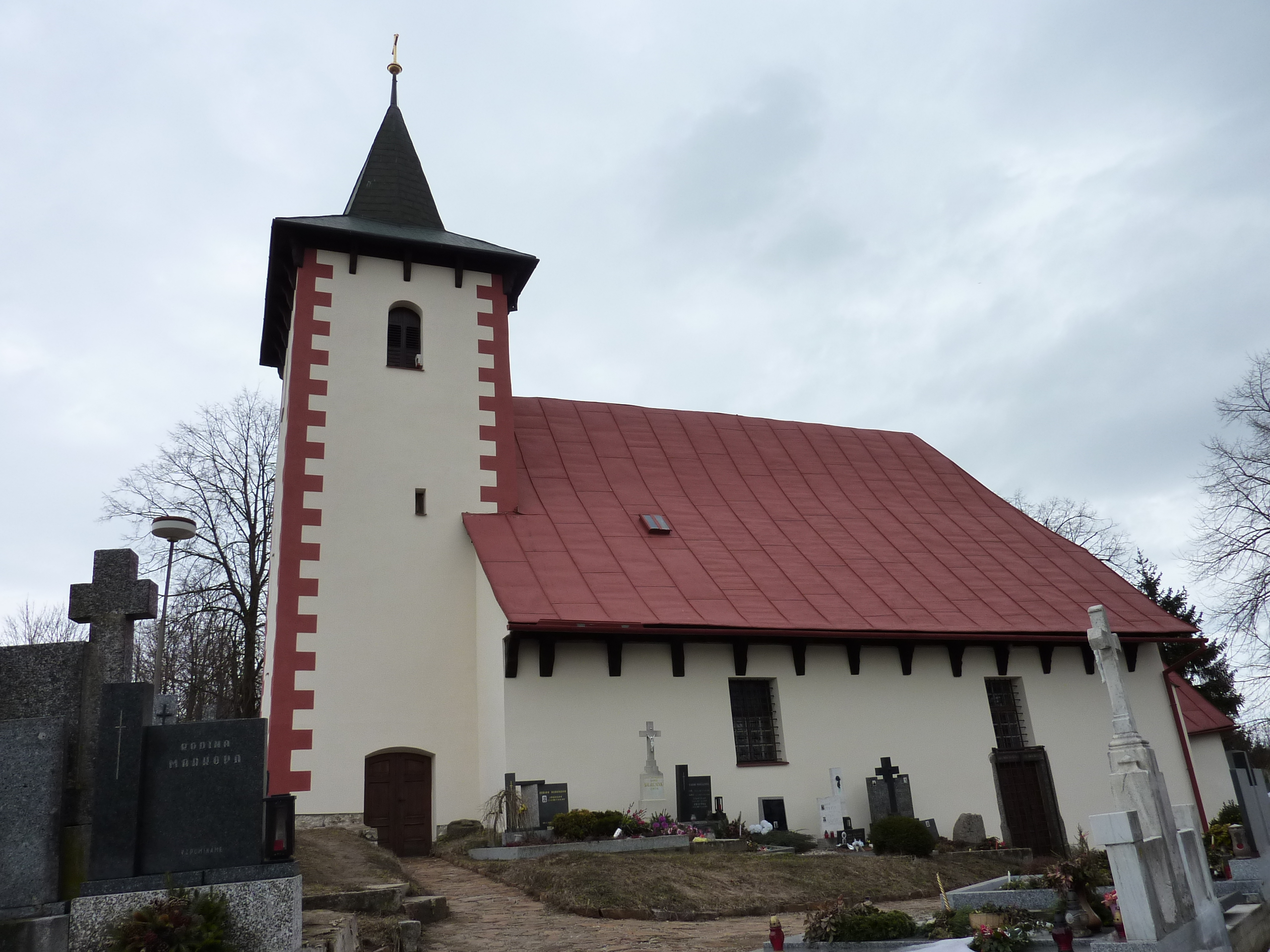 St. Mark's church in Velké Meziříčí - Mostiště (district Žďár nad Sázavou), Czech Republic